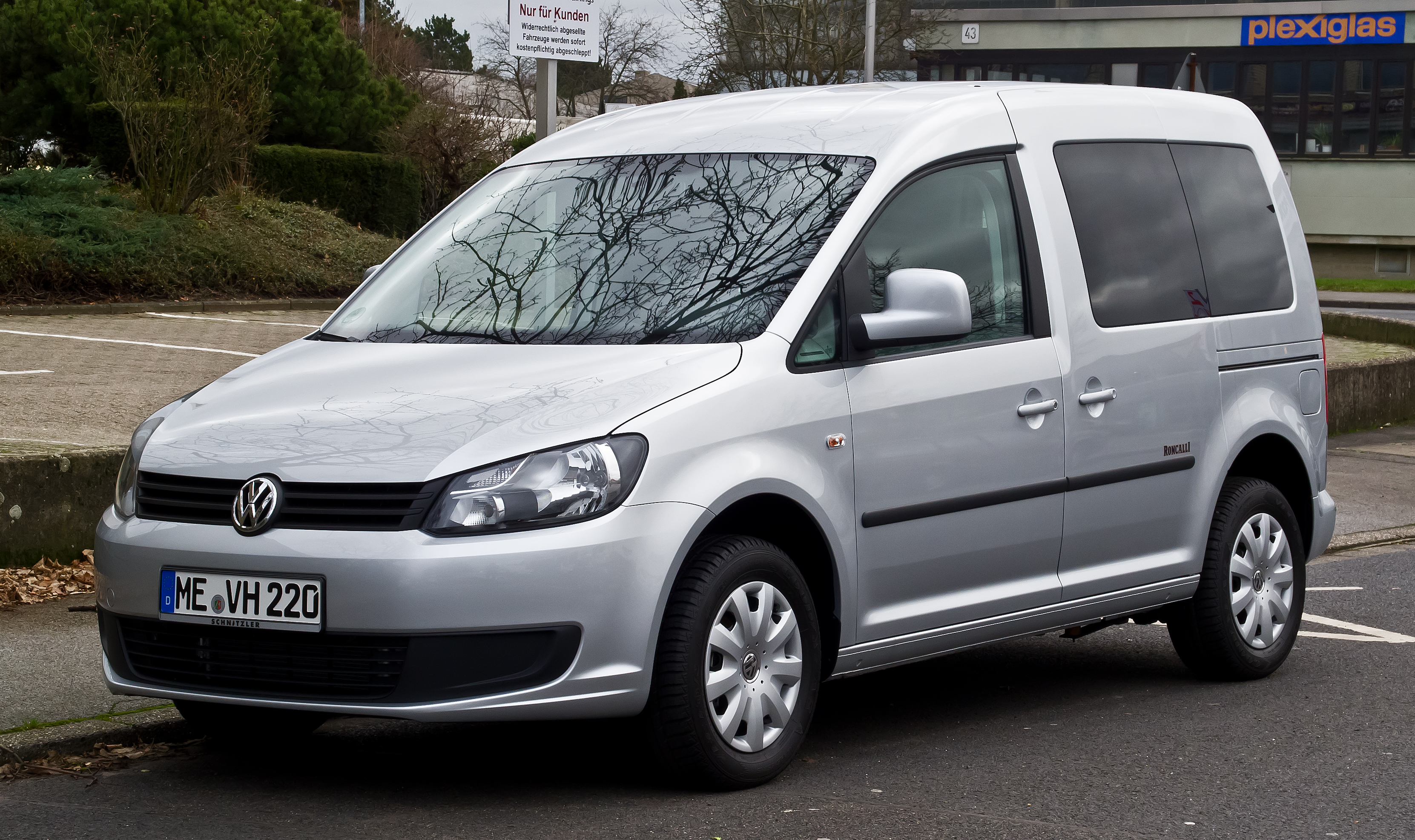 VW Caddy 1.2 TSI Roncalli (2K, Facelift)